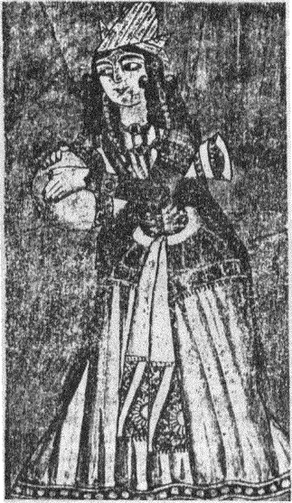 Rəqqasə. Mirzə Qədim İrəvani